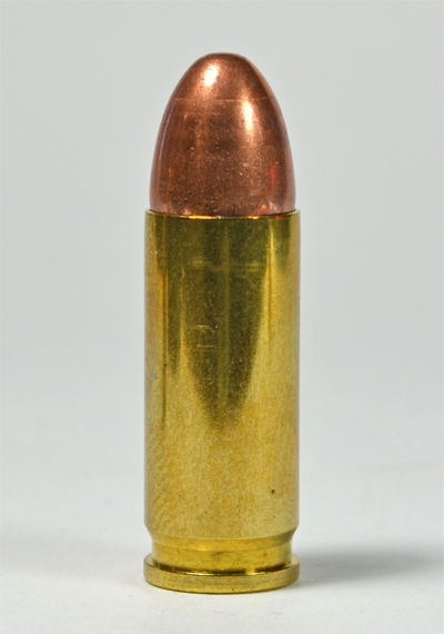 9mm Steyr cartridge as loaded by Hornady Manufacturing Company.